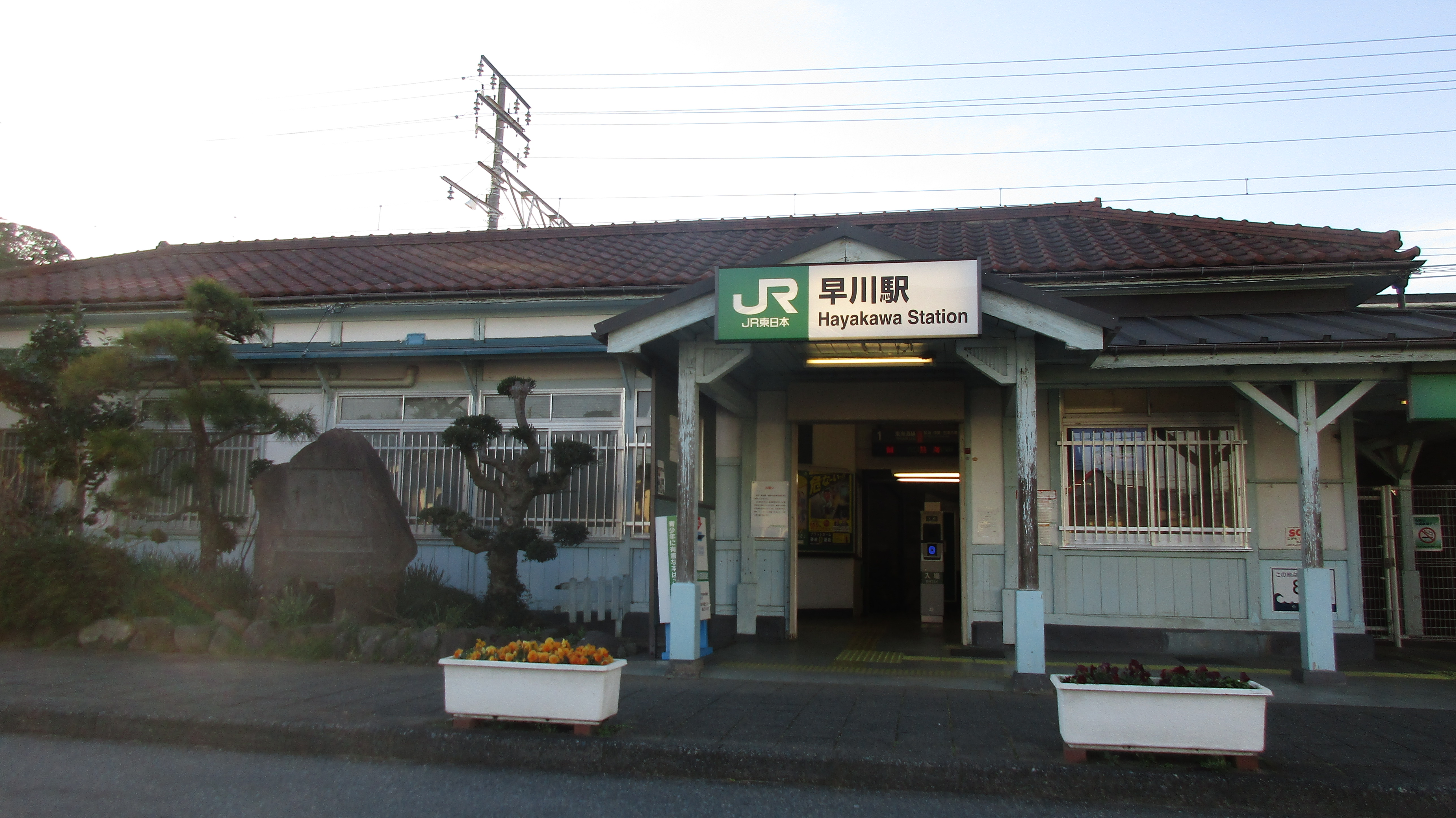 JR東海道本線 早川駅舎